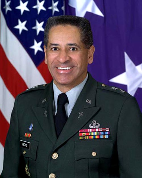 David Hicks, Former Chief of Chaplains of the U.S. Army (and first African-American Chief of Chaplains of any branch of the U.S. Armed Forces)